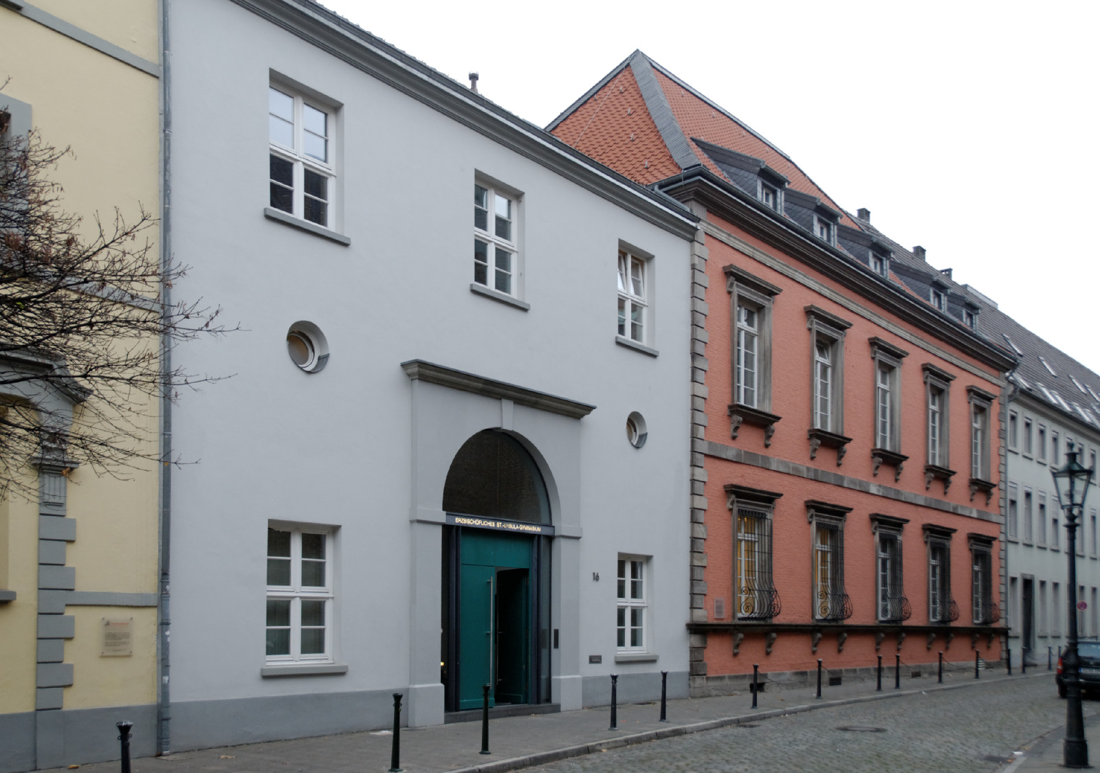 Houses Ritterstraße 16 und 16a in Düsseldorf-Altstadt, Germany